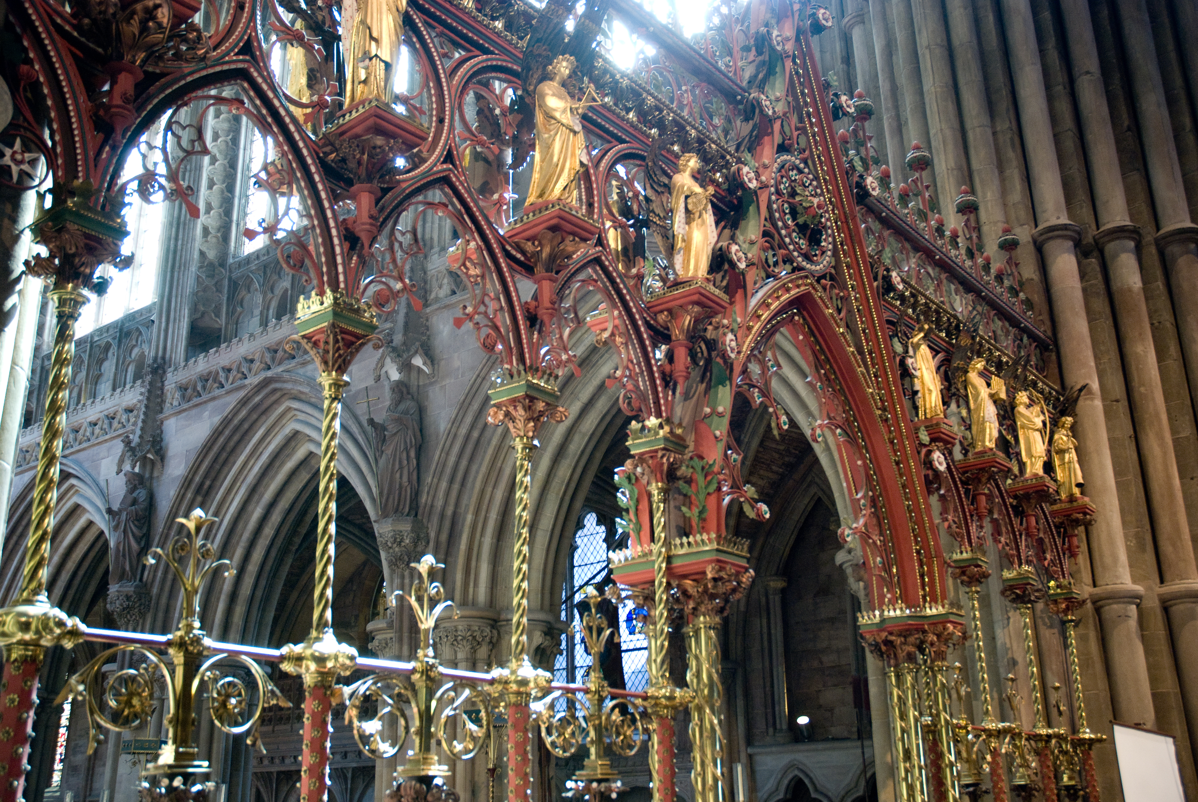 Some rather ornate details in the Lichfield Cathedral